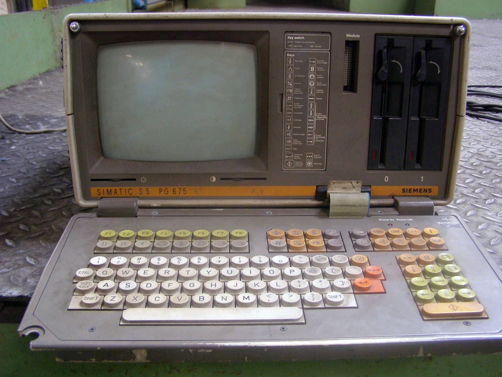 SIMATIC S5 PG675